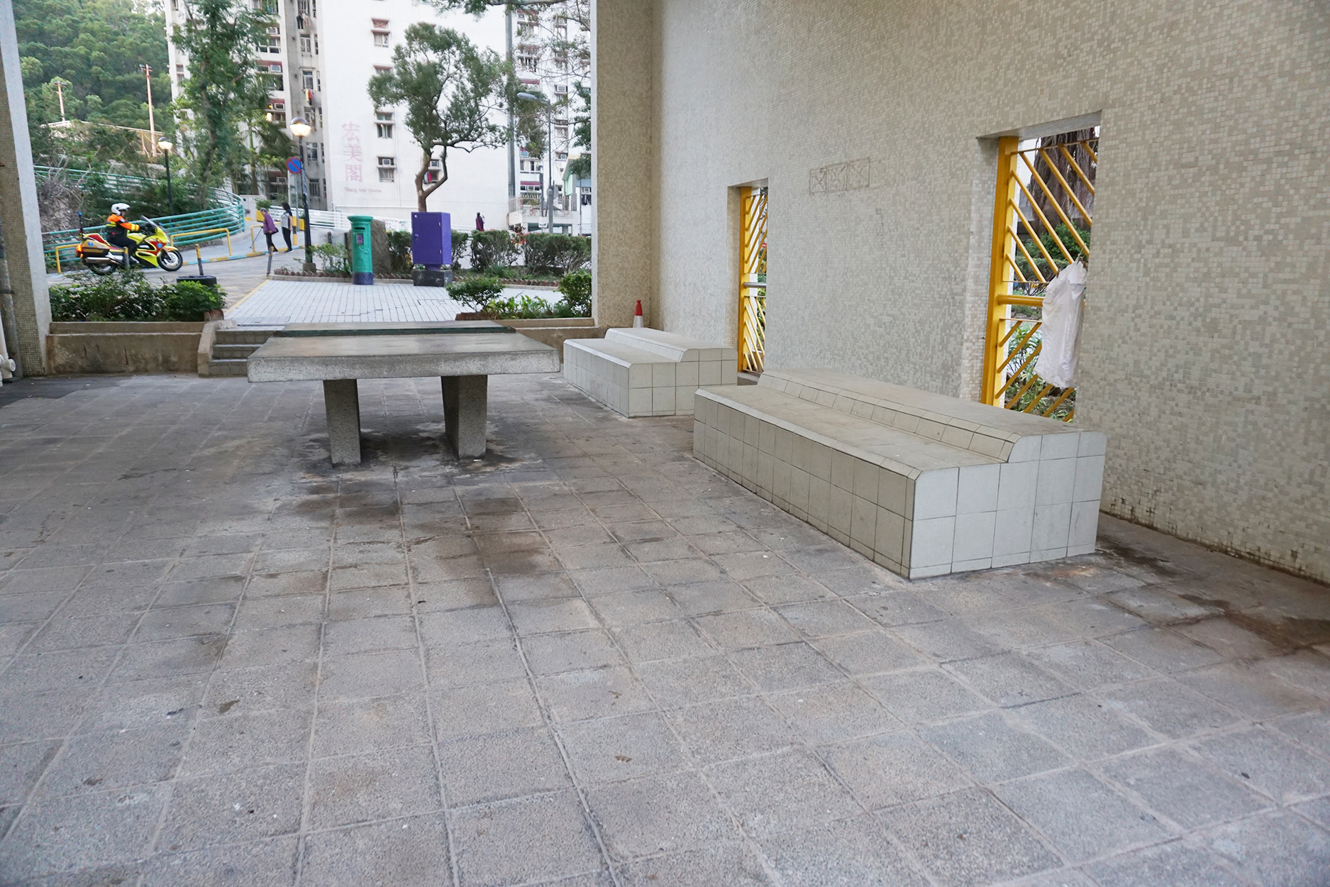 Tin Ma Court in Chuk Yuen, Hong Kong.